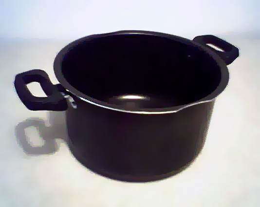 Black pot. Taken by me.